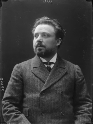 Italian actor Oreste Calabresi